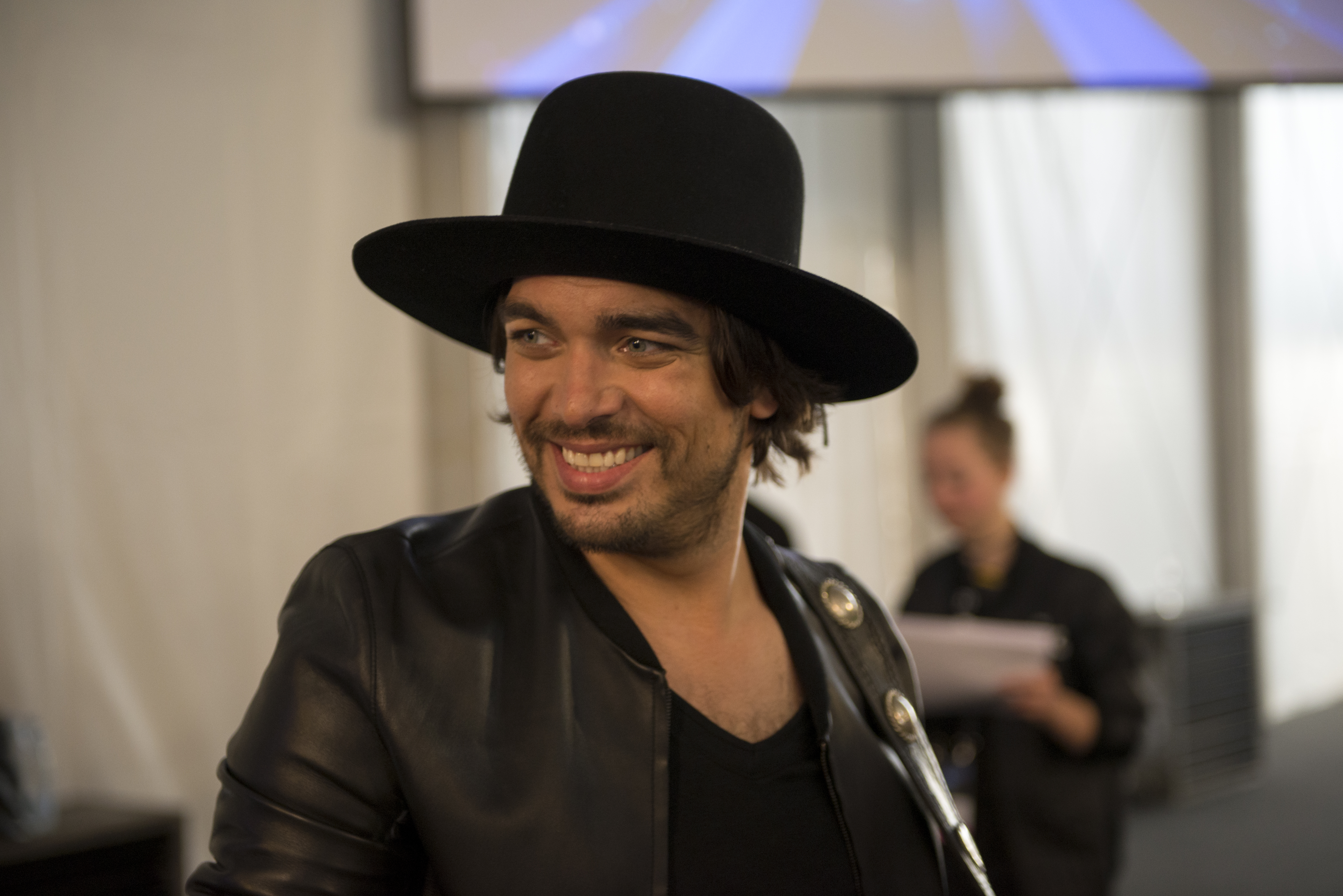 Q15229258 at a Meet & Greet during the Q5354210 Q1748. (Help translate this text)